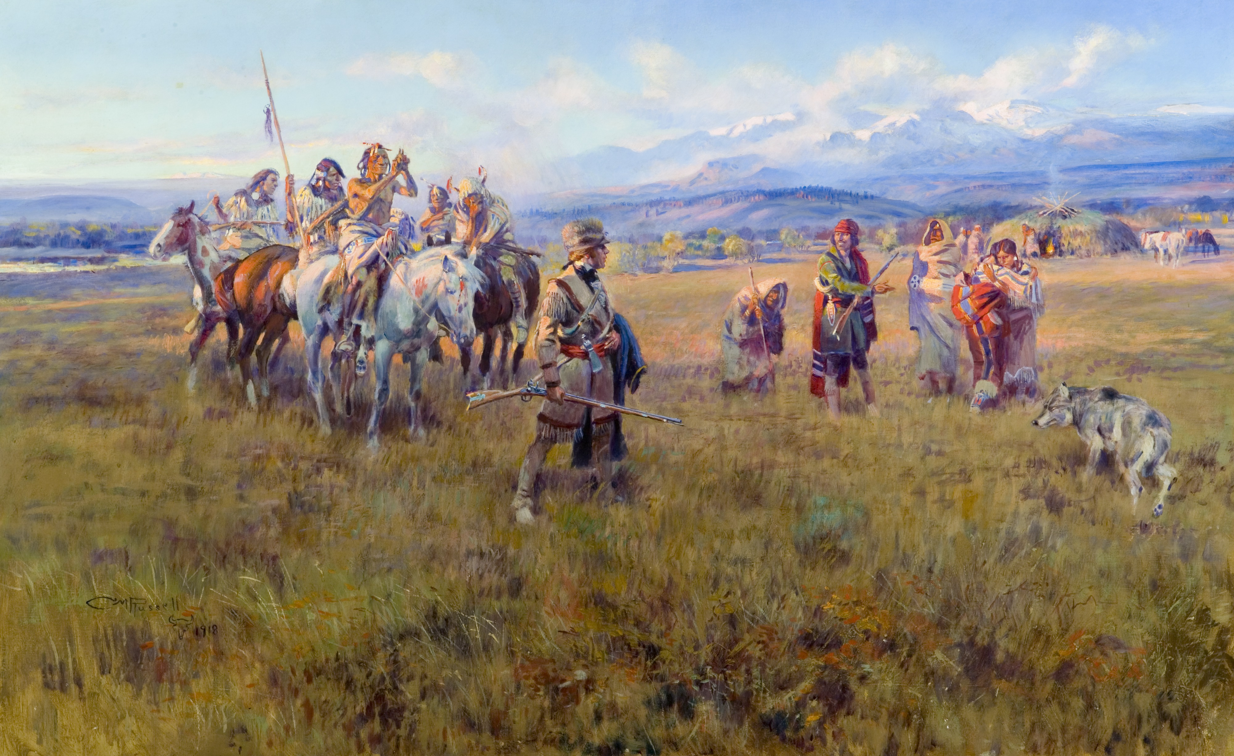 0137.2267 Lewis and Clark Expedition 1918 Charles Marion Russell, 1864 - 1926 (Artist)